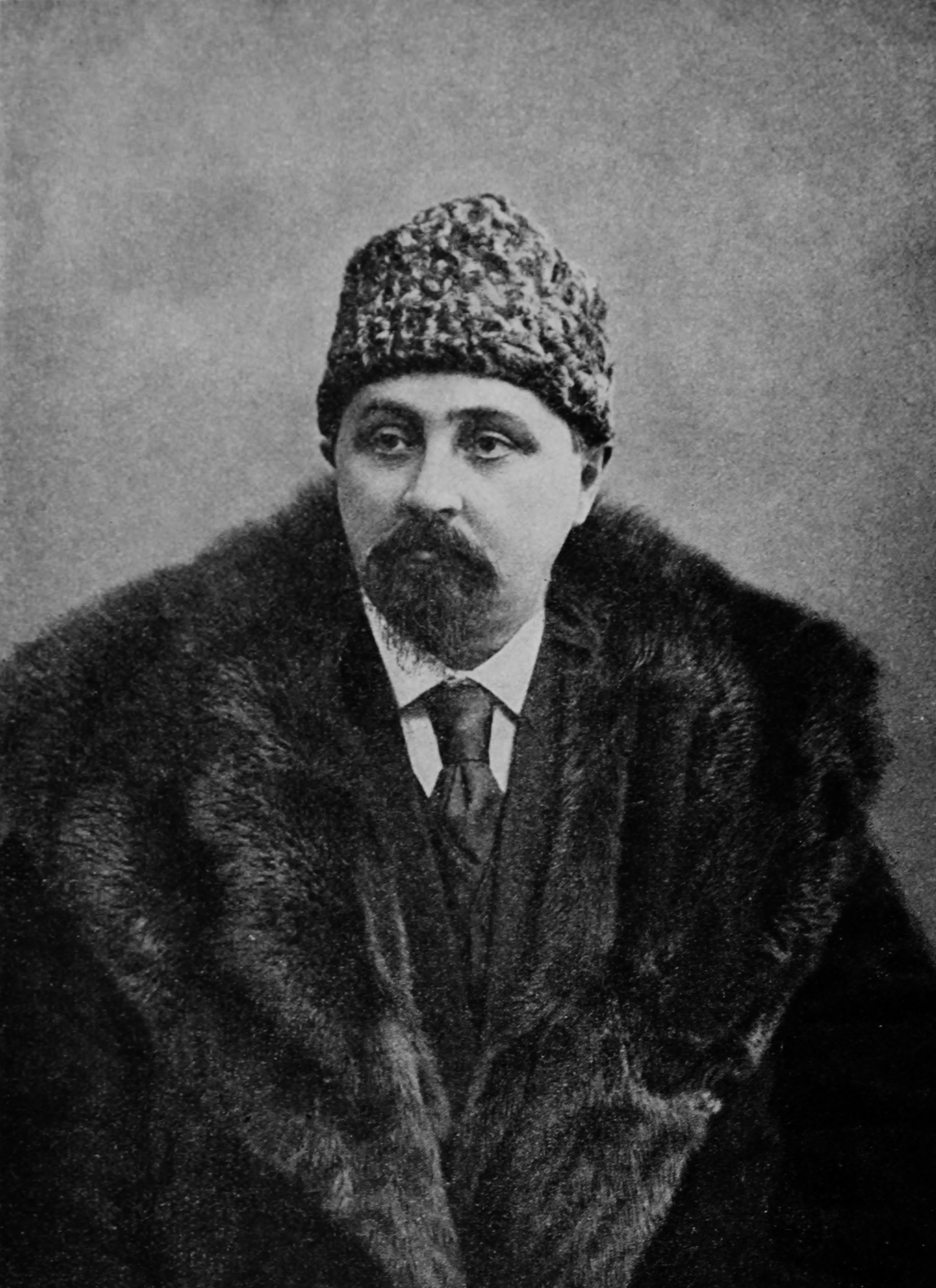 Dmitry Narkisovich Mamin-Sibiryak (1852-1912)